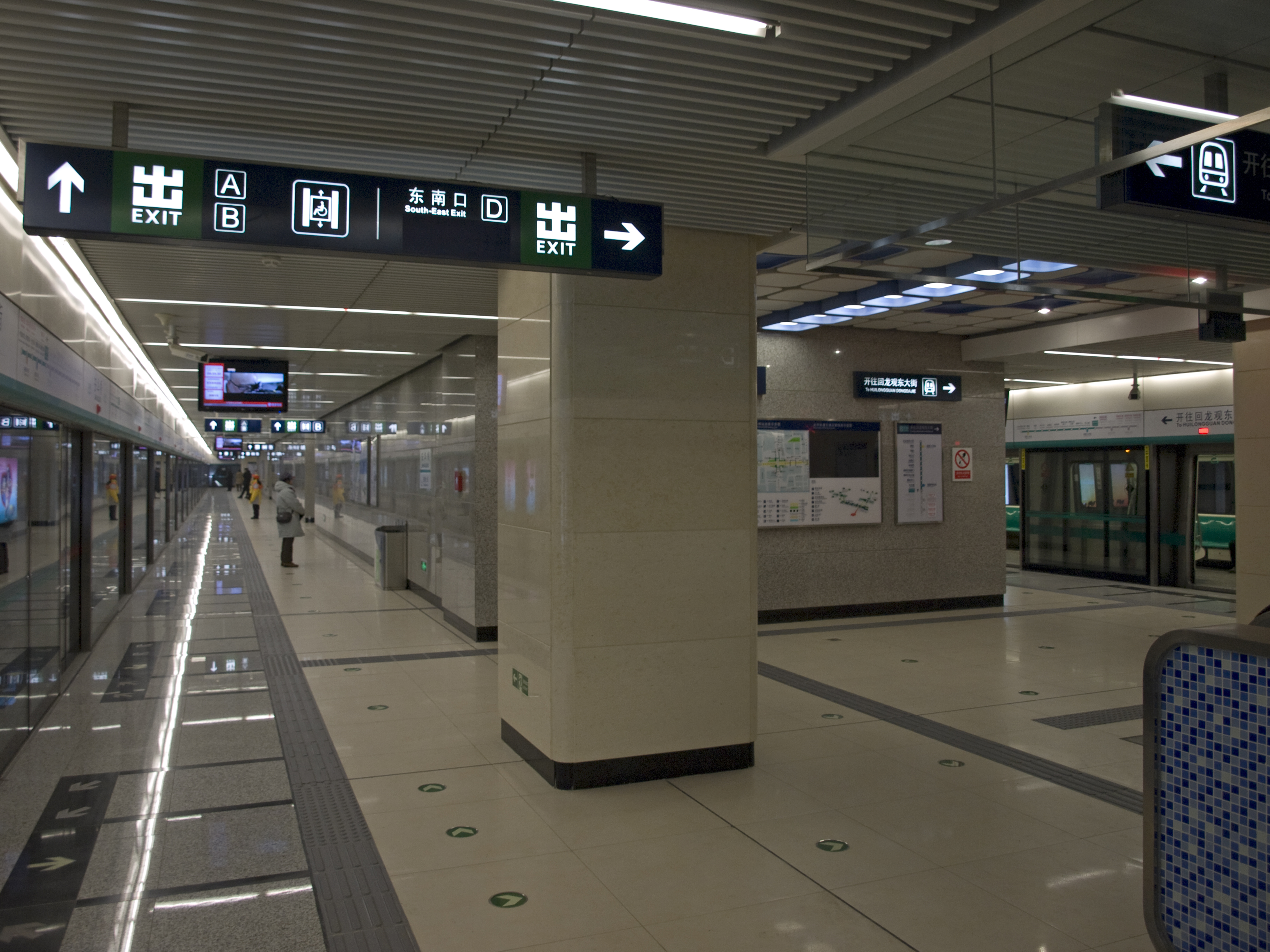 Anhuaqiao station, Beijing Subway